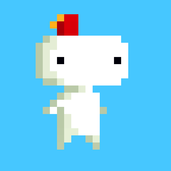 Gomez, character from Fez